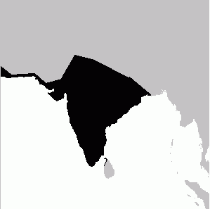 Distribution of Grey Francolin Francolinus pondicerianus based on literature